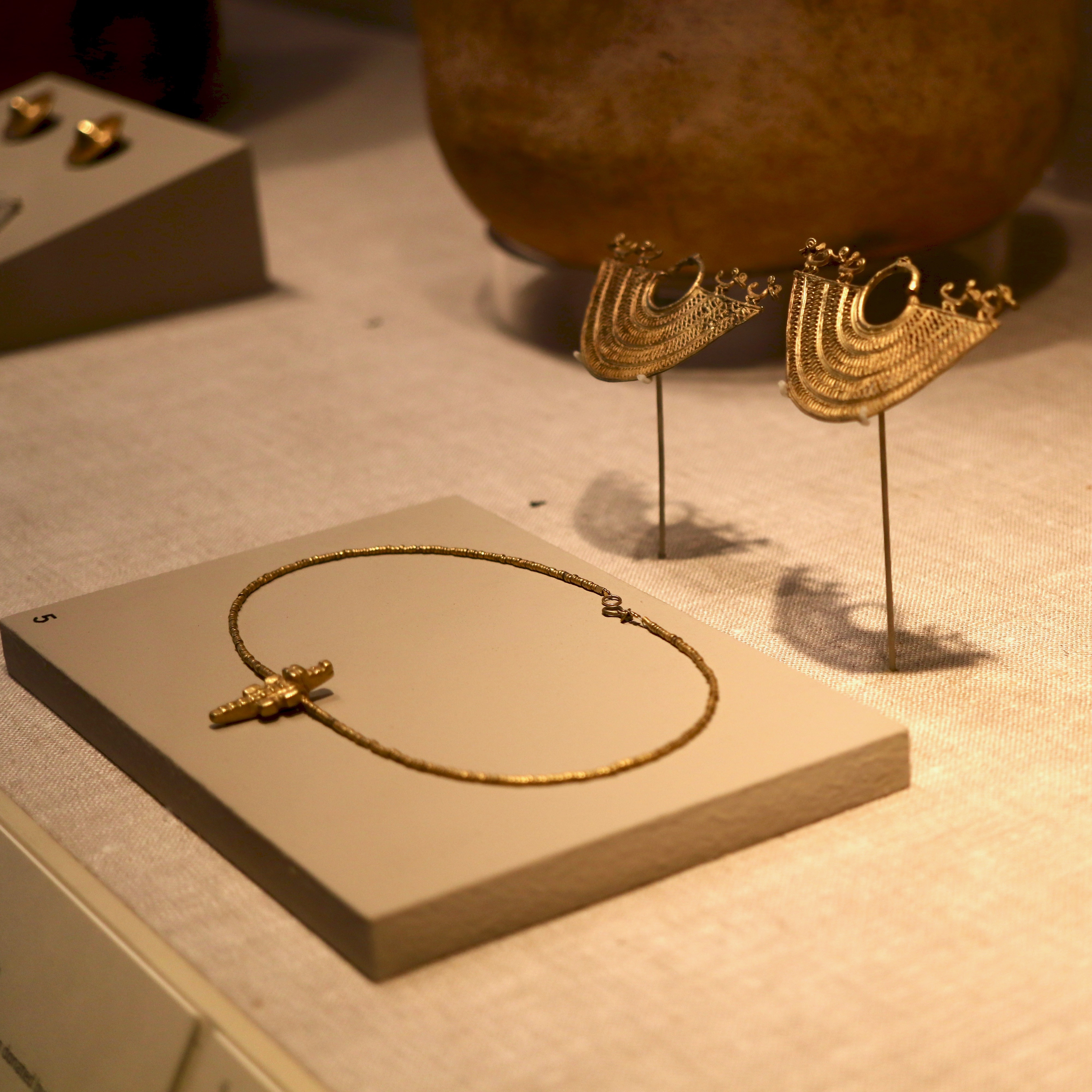 Pair of Earrings, AD 800 Zenú / Sinú region, Colombia Gold The Dom Joseph Judge, M.D. Collection donated by the Judge Family 2002.24.1a, b This pair of cast filigree earrings is characteristic of the Zenú / Sinú culture of ancient Colombia. Necklace featuring Alligator Pendant, AD. 200 Calima/Tolima Culture, Colombia Gold The Dom Joseph Judge, M.D. Collection donated by the Judge Family 2004.26.5